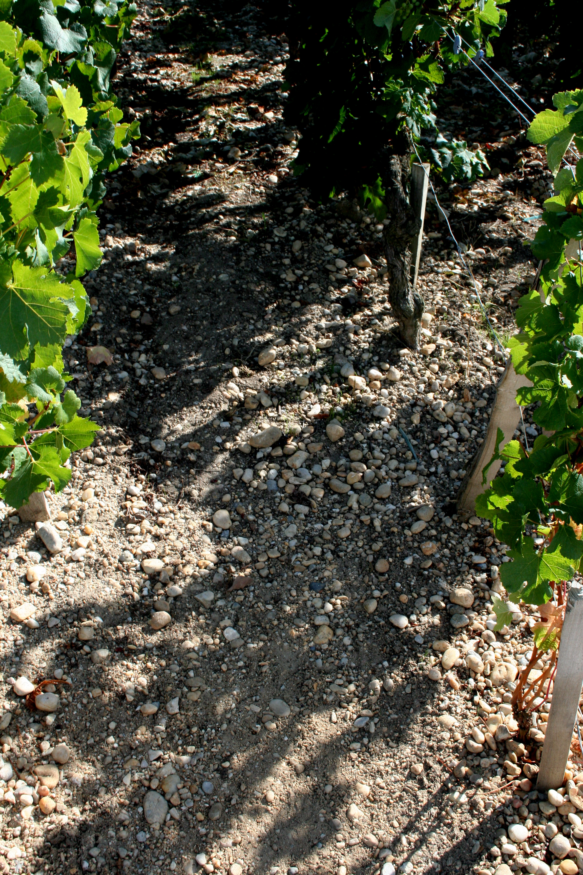 Saint-Estèphe Terroir, Château Cos d’Estournel